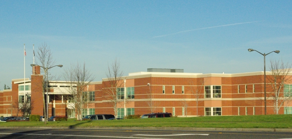 Century High School (Hillsboro, Oregon) in Hillsboro, Oregon, USA